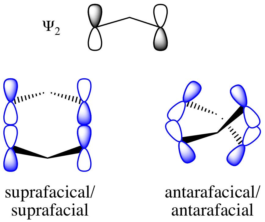 [3,3]-sigmatropic rearrangement selection rule by FMO analysis.